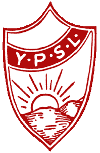 Historic logo of the Young People's Socialist League (1907-1973). Published in The Young Socialists Magazine, 1919. Published in USA prior to 1923, public domain. Scanned and digitally edited by Tim Davenport from an original magazine in his collection, posted by him to Wikipedia, no copyright claimed.